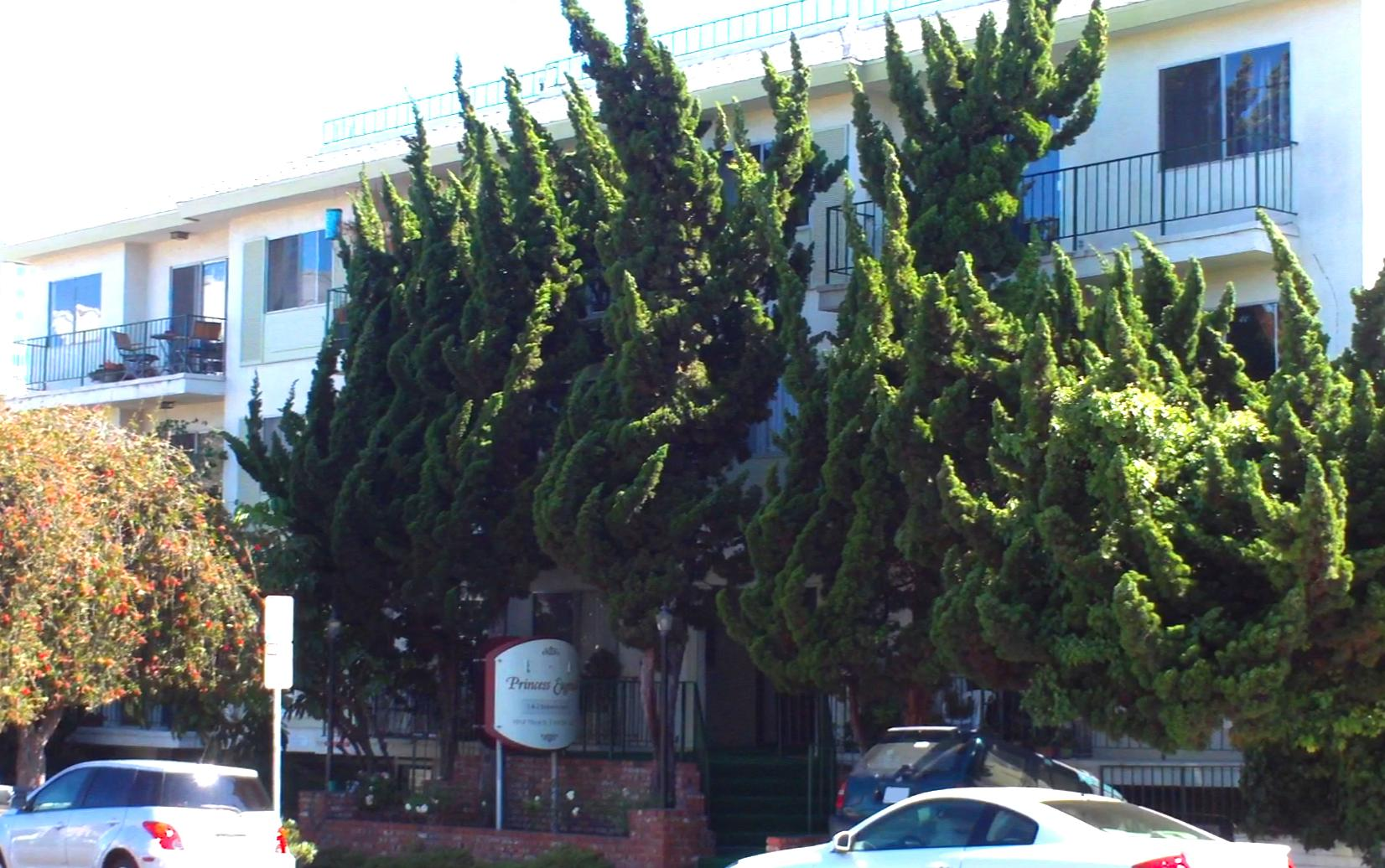 Photo of the apartment building at 1012 Third Street, Santa Monica, California, where James "Whitey" Bulger spent at least ten years as a fugitive.